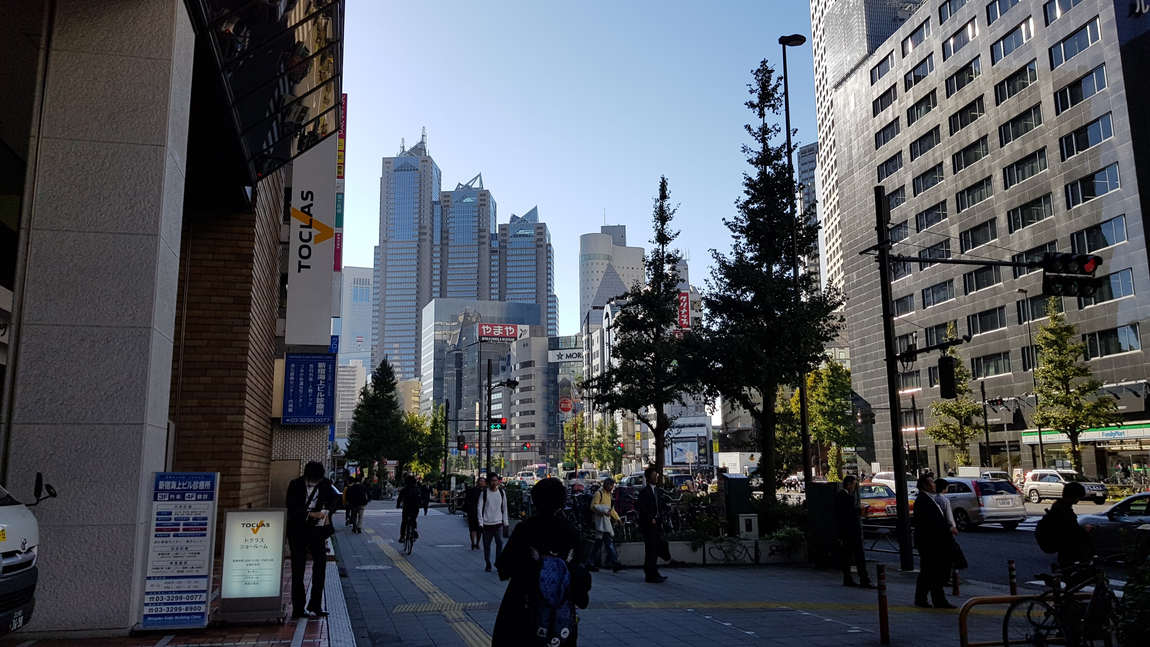 Shinjuku office buildings